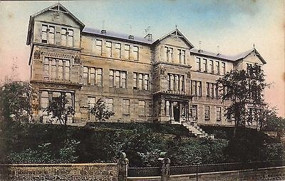 Postcard of Kilmarnock Infirmary